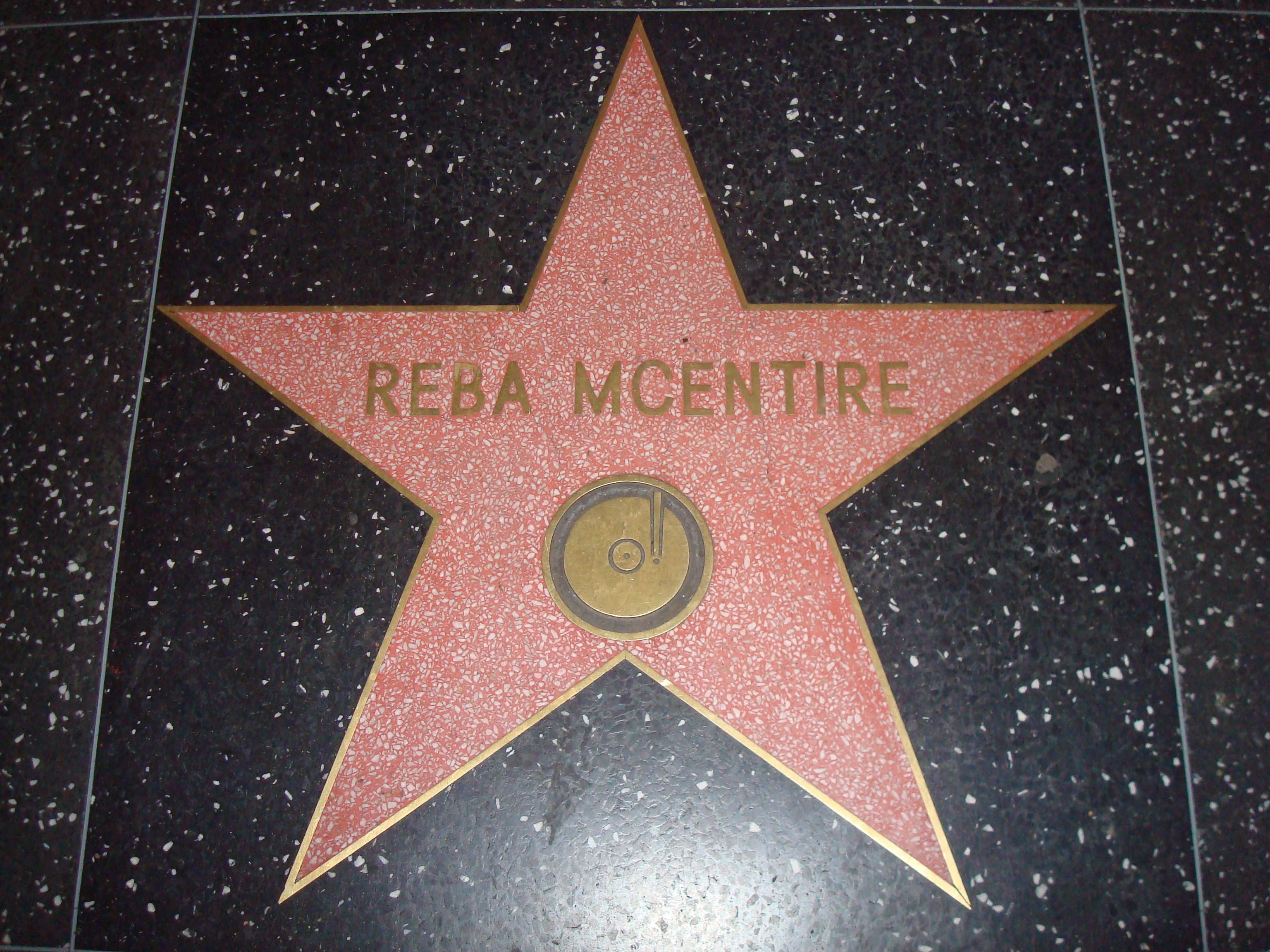 Reba McEntire's star on the Hollywood Walk of Fame in Hollywood, Los Angeles, California.